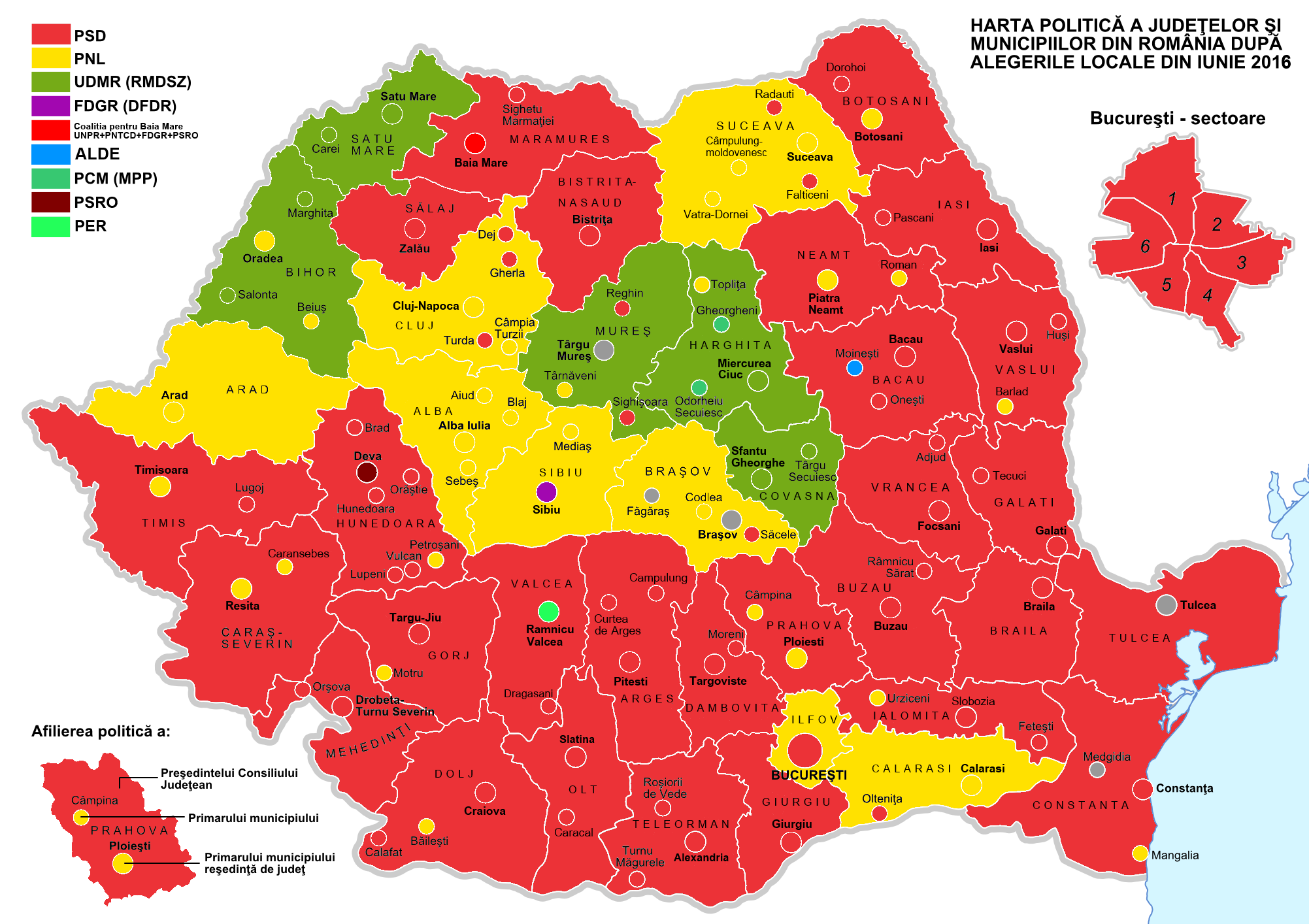 Local romanian elections 2016, political colors of mayors and county leaders.